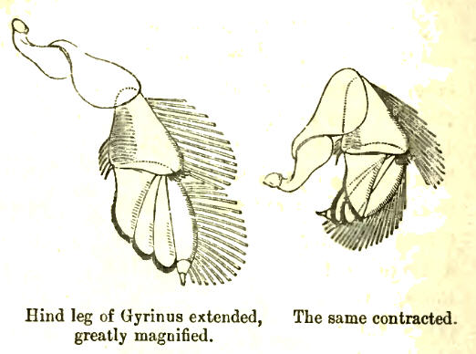 Leg of Gyrinus beetle (Whirligig)